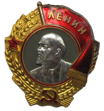 Order of Red Banner, Order of Lenin and captain's badge. All belonged to Pavel Kiselev. An image from family archive, owned by D.Kiselev